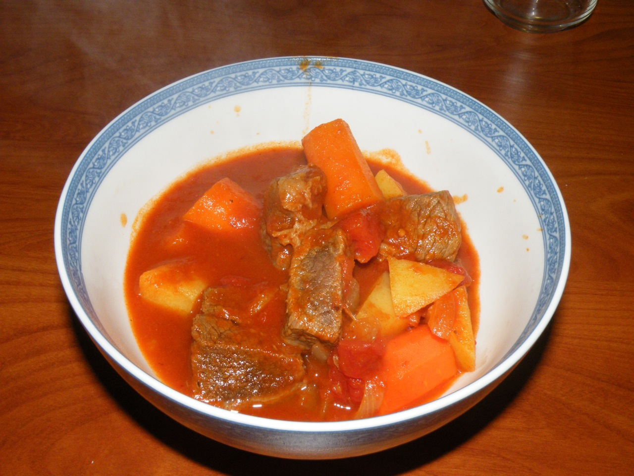 Goulash